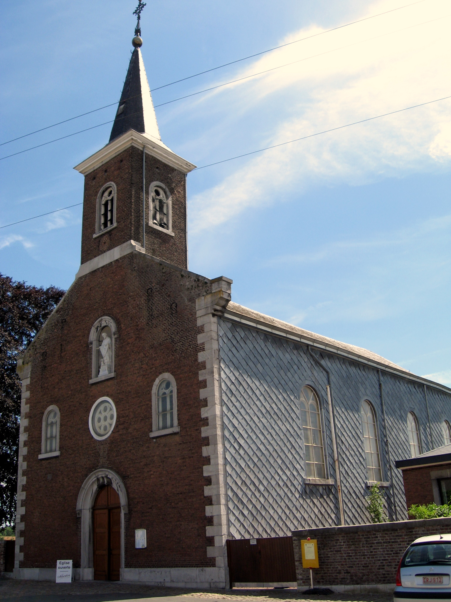 Church of Saint Giles in Froidthier, Clermont, Thimister-Clermont, Liège, Belgium